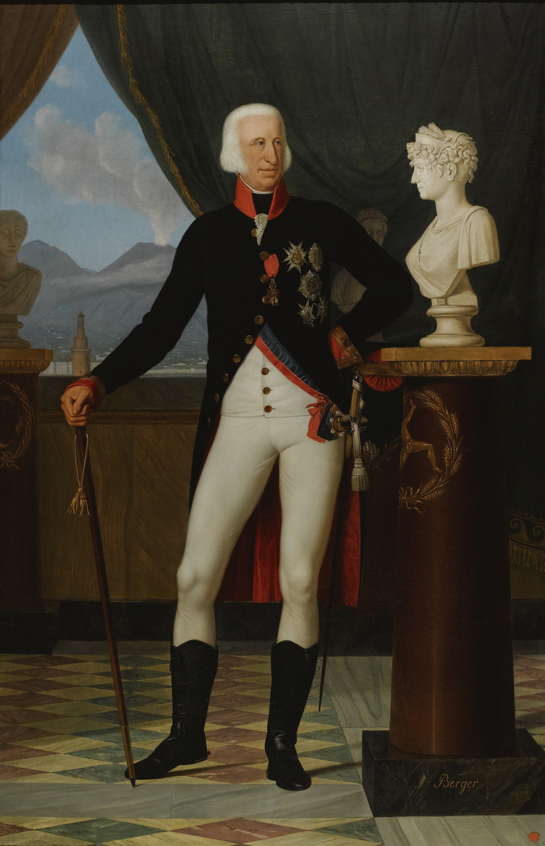 Ferdinand I, king of the Two Sicilies, with a bust of his morganatic wife, Lucia Migliaccio duchess of Floridia